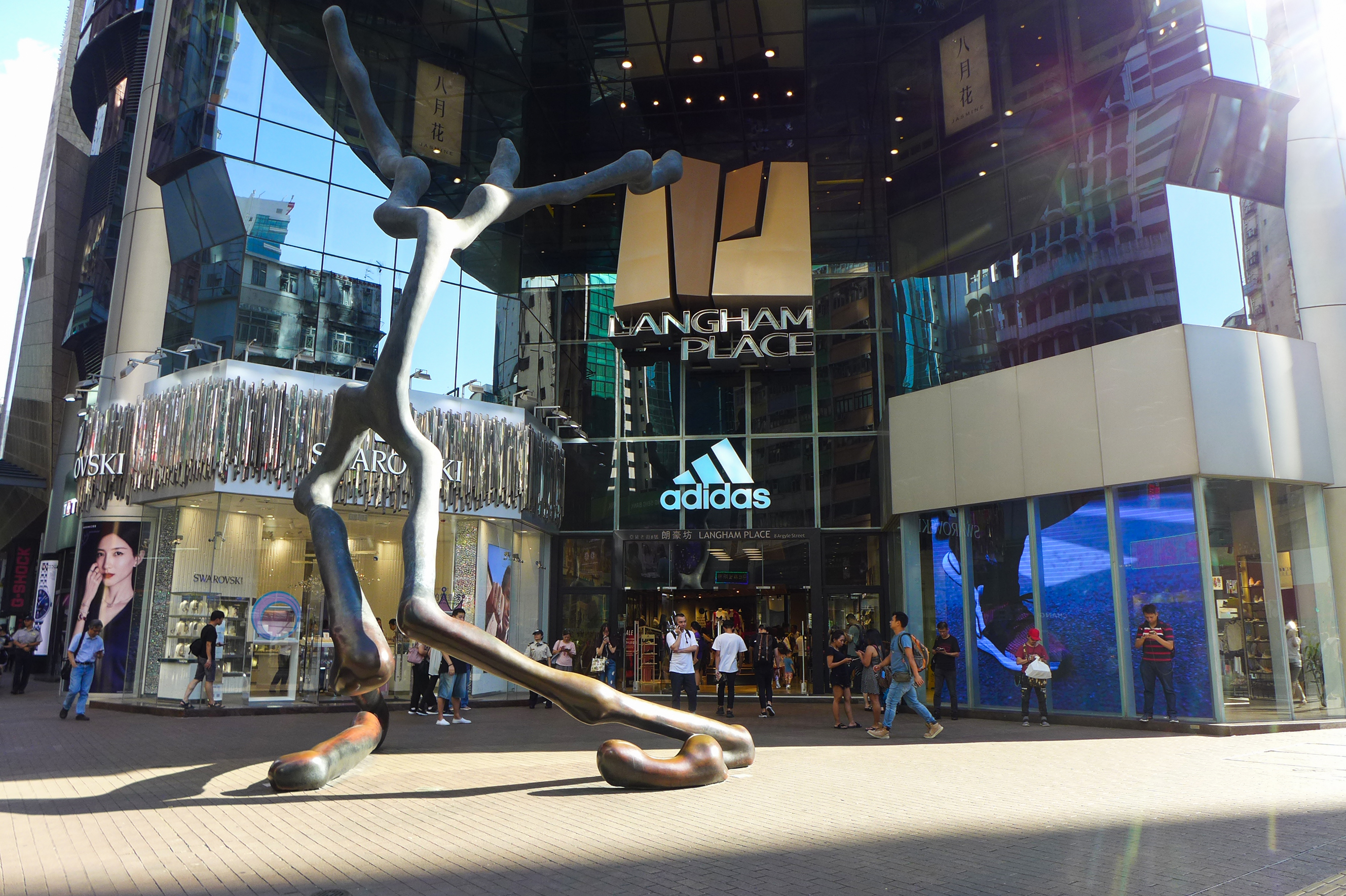 Langham Place Enterance